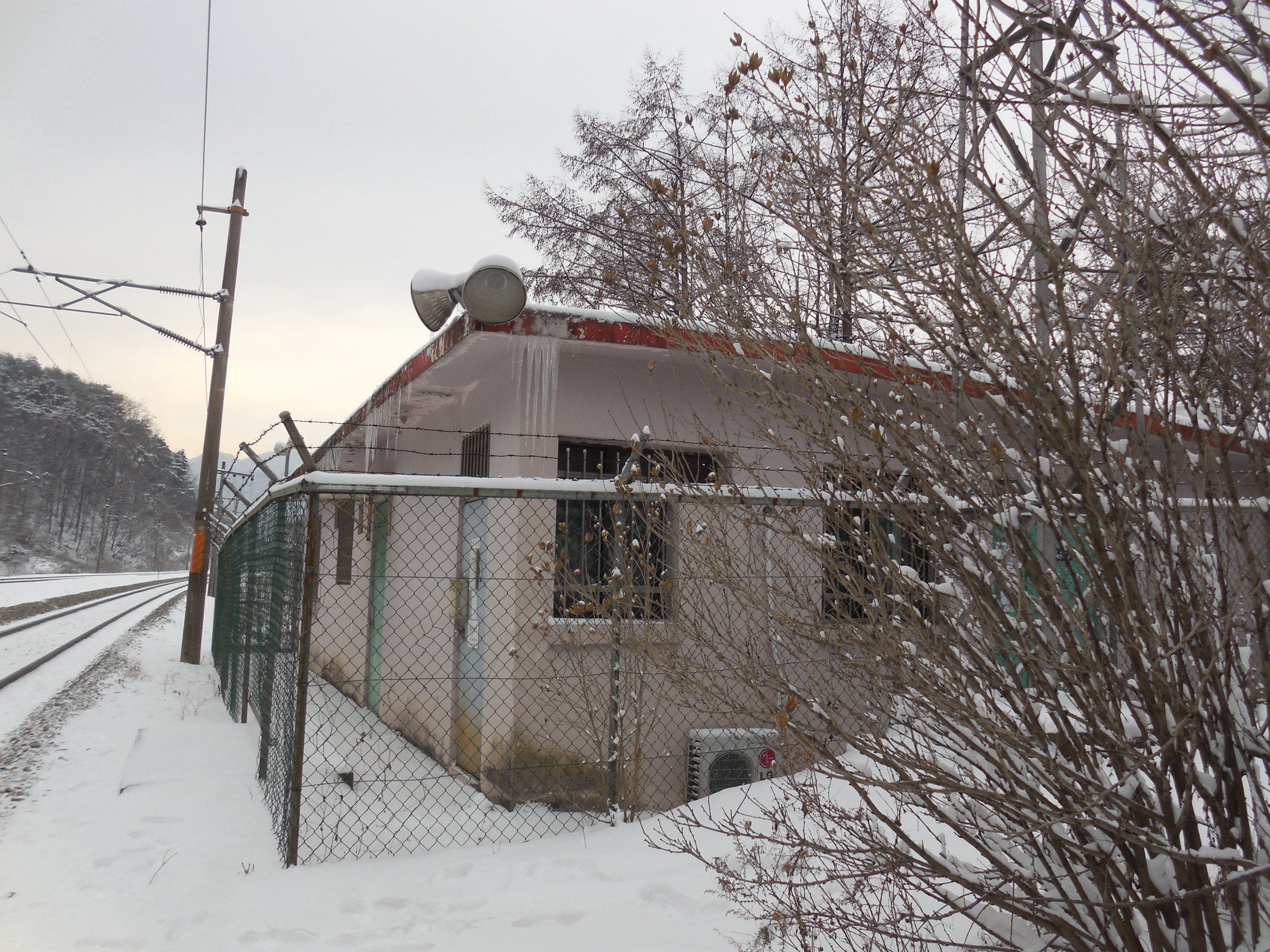 Korail Jungang Line Geumgyo Station.